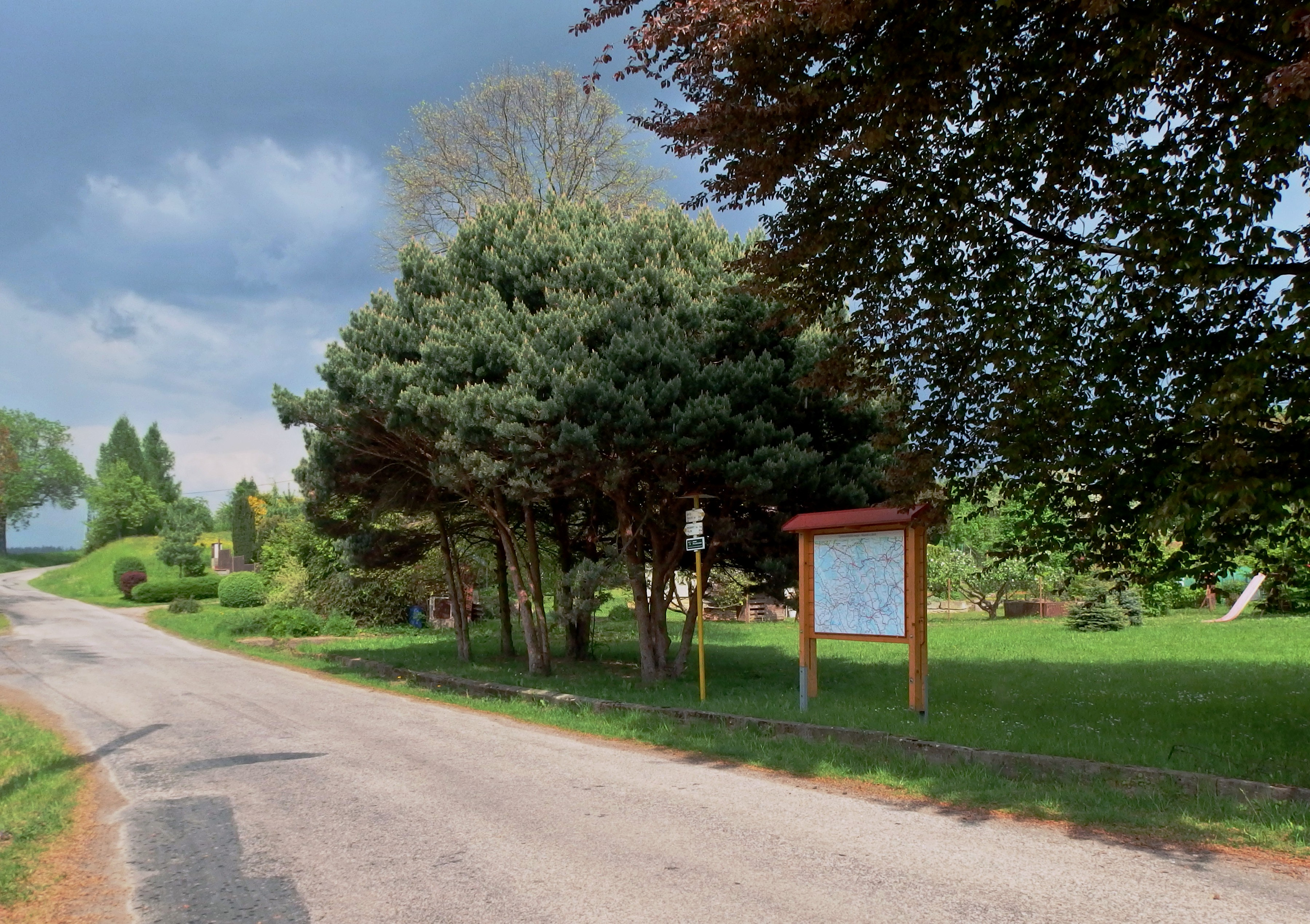 Mostek, Ústí nad Orlicí District, Czech Republic, part Sudličkova Lhota.